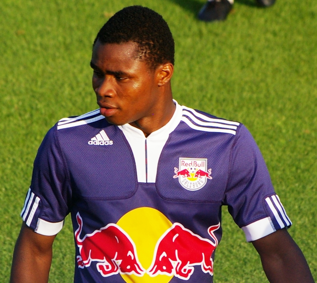 player RBSalzburg Juniors